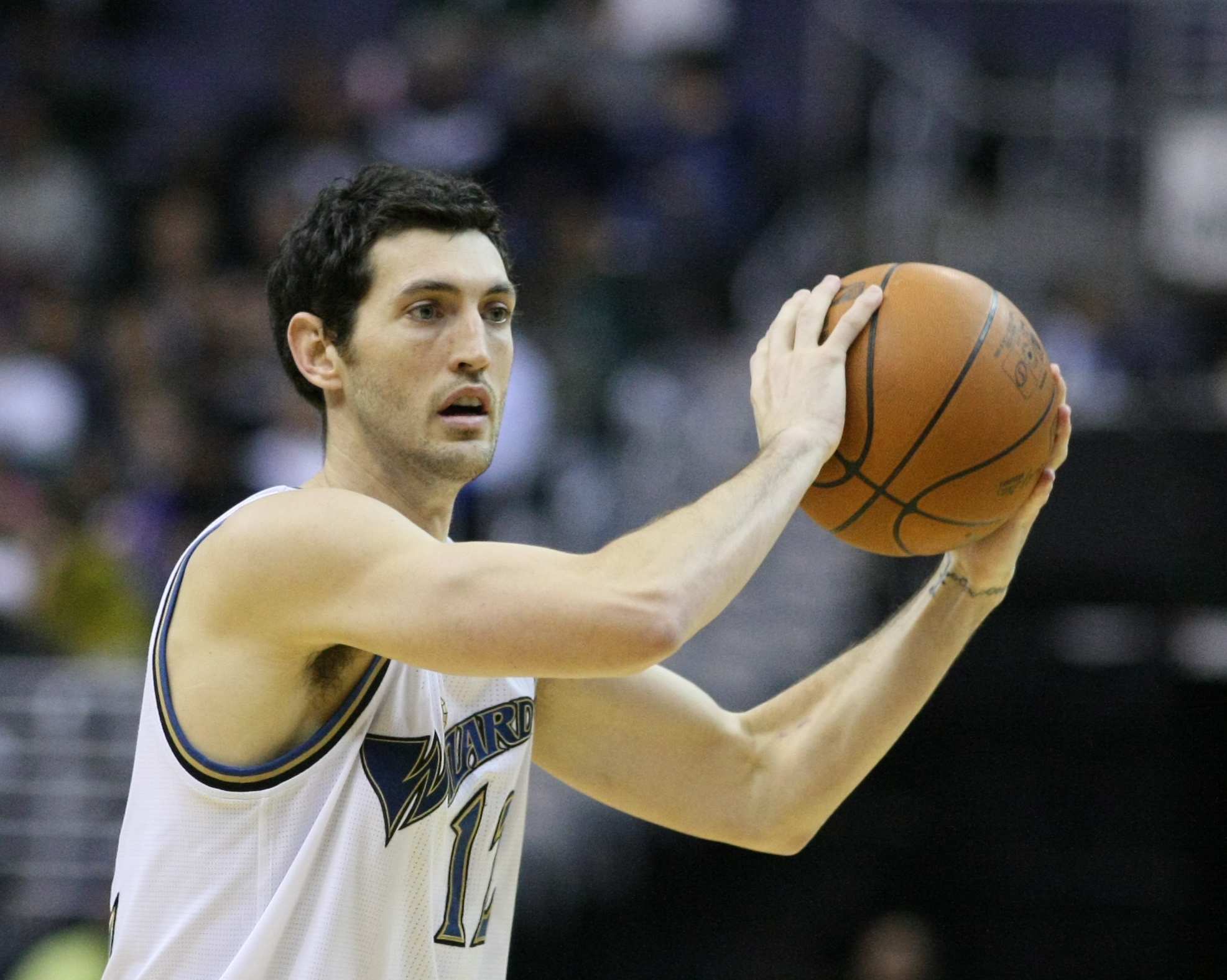 Washington Wizards v/s Philadelphia 76ers November 23, 2010